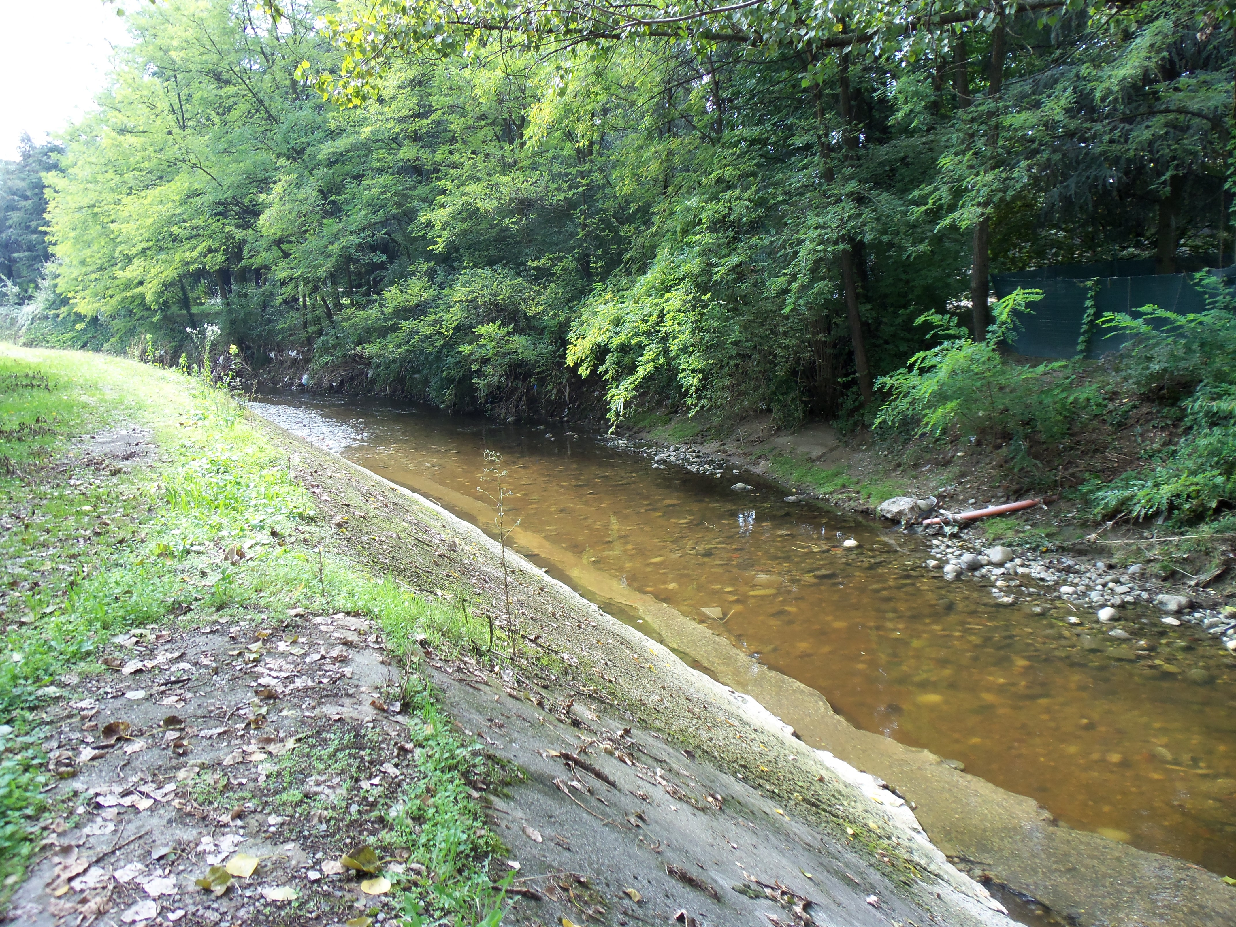 Brown waters in Seveso River near Seveso (city)